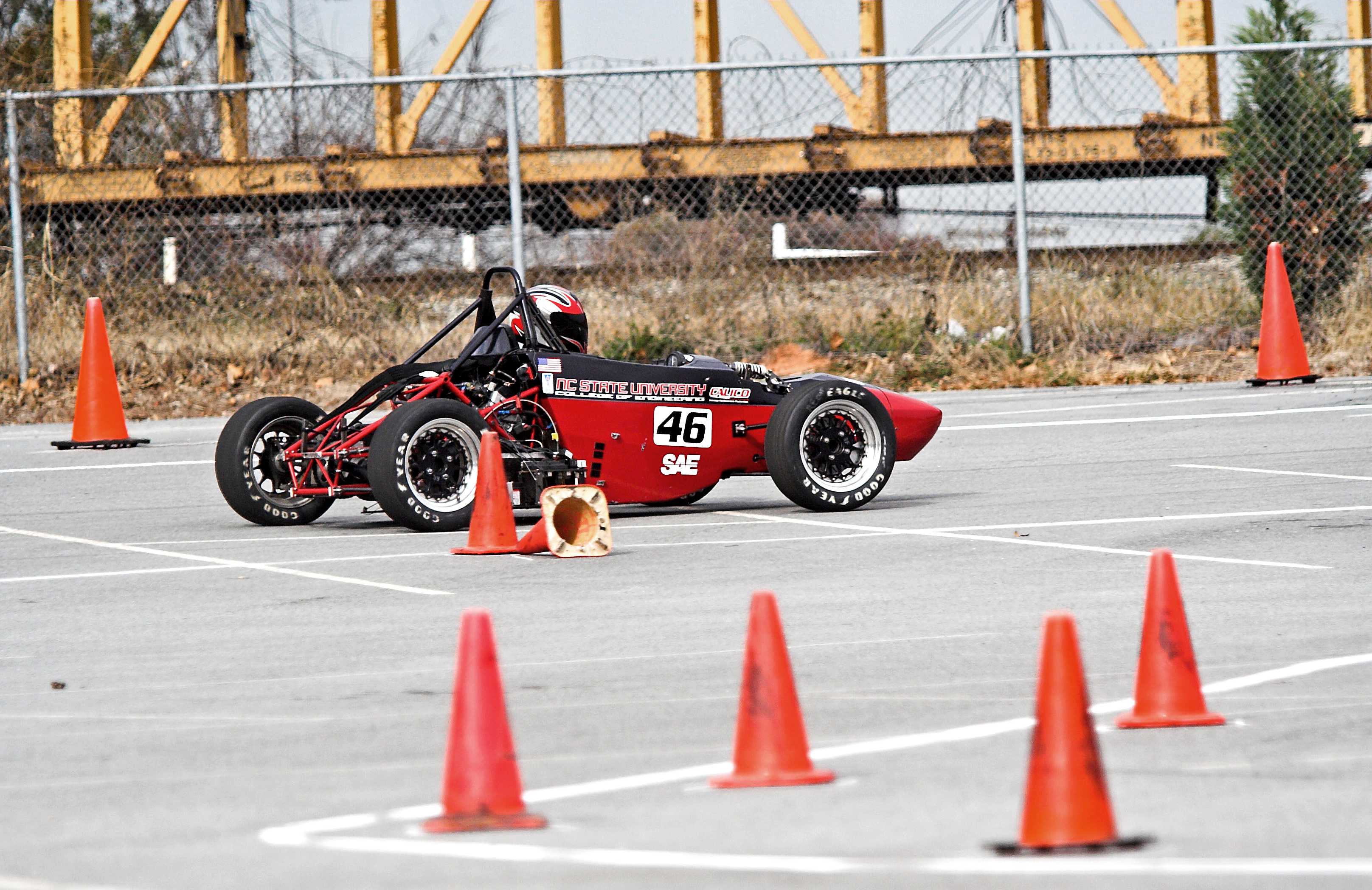 Wolfpack Motorsports